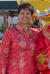 Mable Elmore MLA